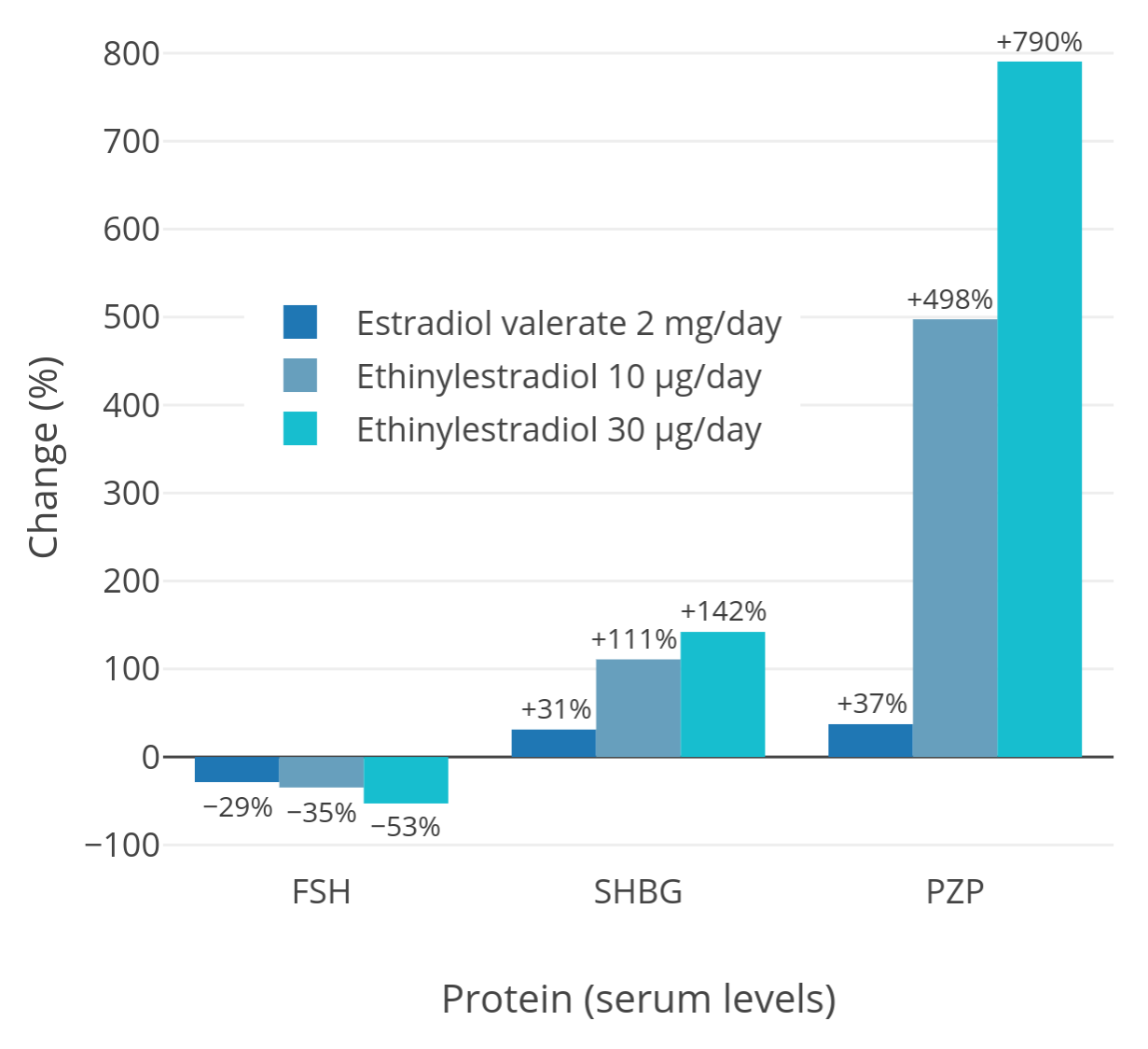 Serum levels of the estrogen-sensitive proteins follicle-stimulating hormone (FSH), sex hormone-binding globulin (SHBG), and pregnancy zone protein (PZP) after 3 months of treatment with 2 mg/day oral estradiol valerate (n = 58), 10 μg/day oral ethinylestradiol (n = 39), or 30 μg/day oral ethinylestradiol (n = 38) in postmenopausal women. Source of the values: (1986). "Estrogen induction of liver proteins and high-density lipoprotein cholesterol: comparison between estradiol valerate and ethinyl estradiol". Gynecol. Obstet. Invest. 22 (4): 198–205. PMID 3817605. Which were reproduced in this secondary source: (1989). "Estrogen therapy and liver function--metabolic effects of oral and parenteral administration". Prostate 14 (4): 389–95. PMID 2664738.